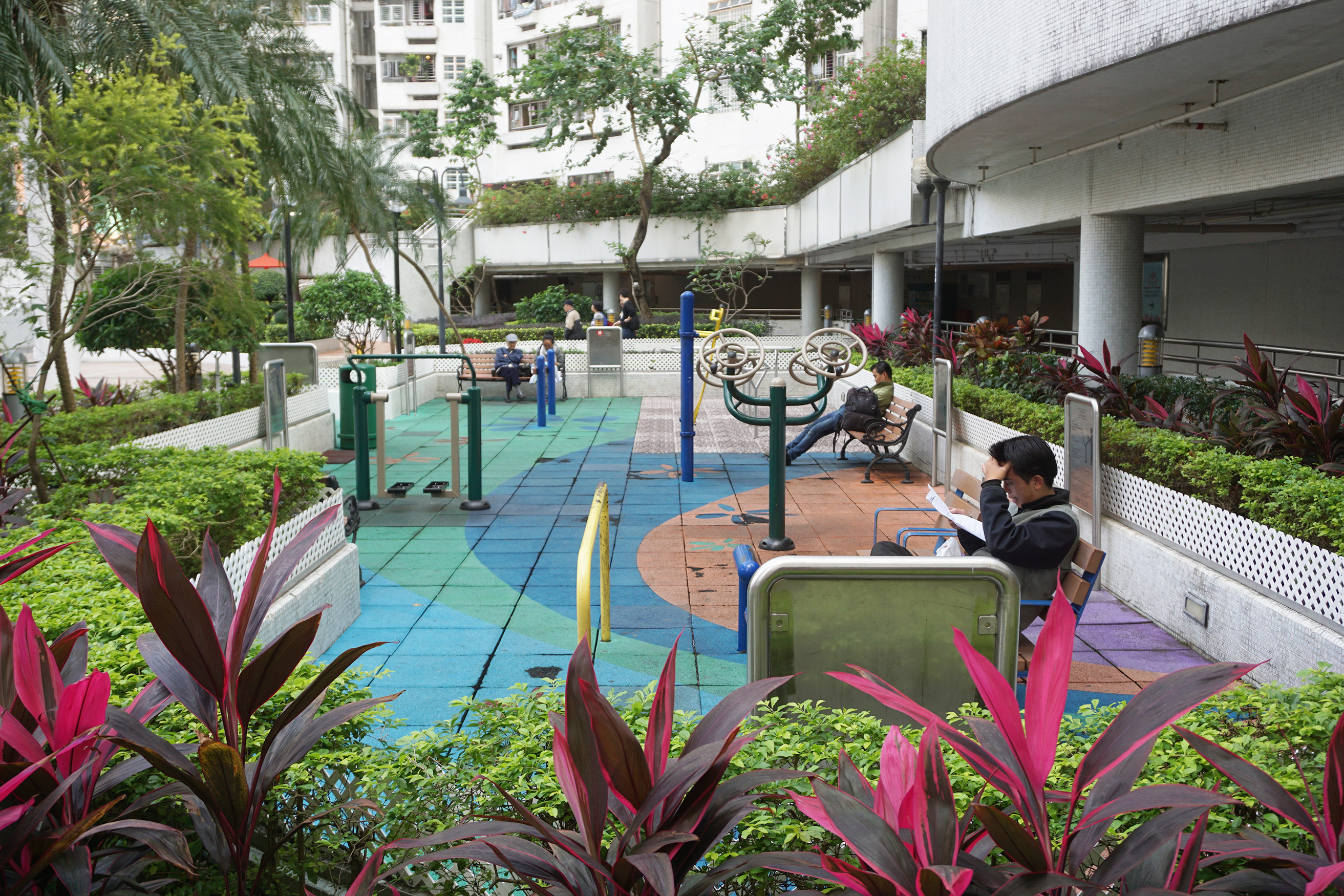 Prosperous Garden in Yau Ma Tei, Hong Kong.